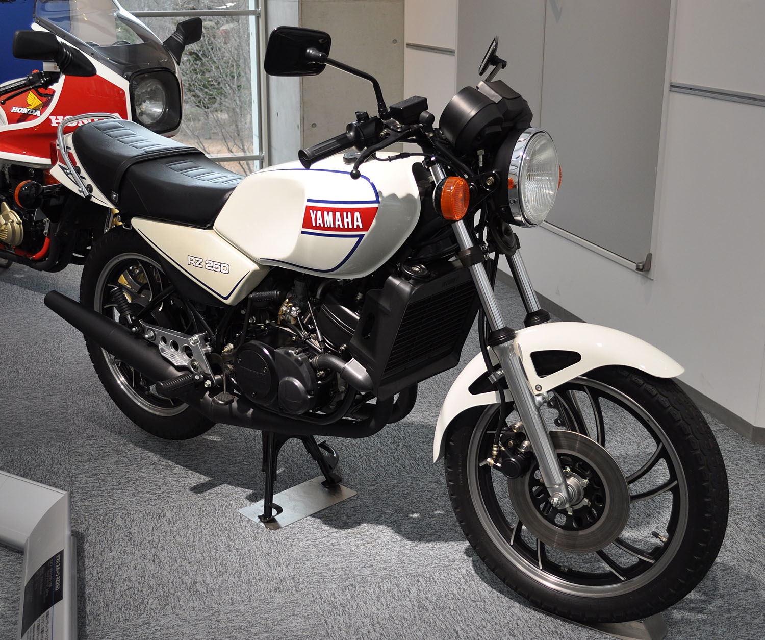 Yamaha RZ250 (1980)